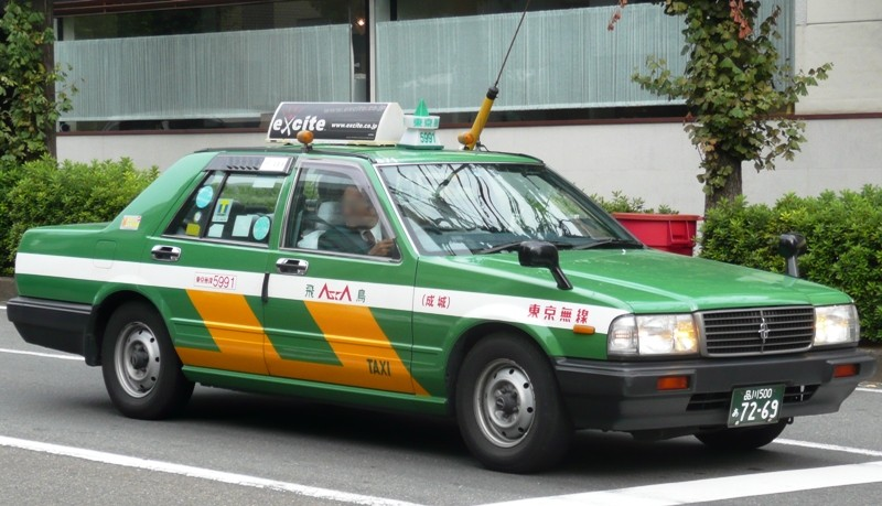 Nissan Cedric.